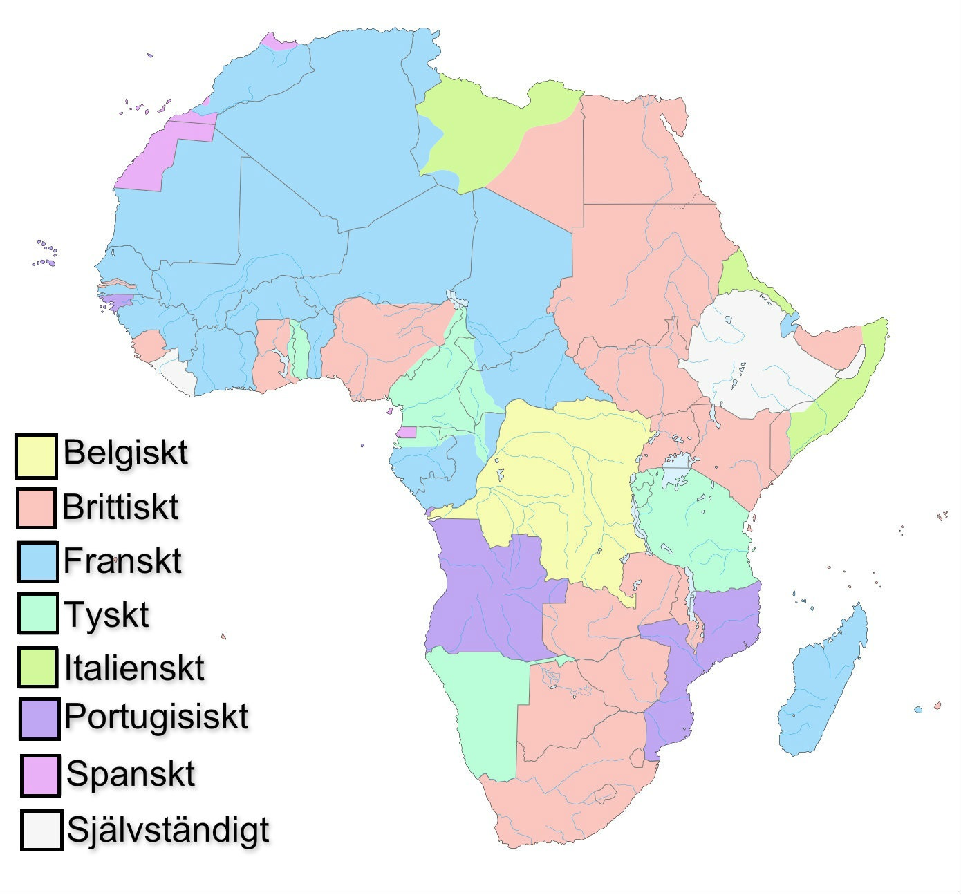 Map over the African colonies by 1913, with swedish nation names.